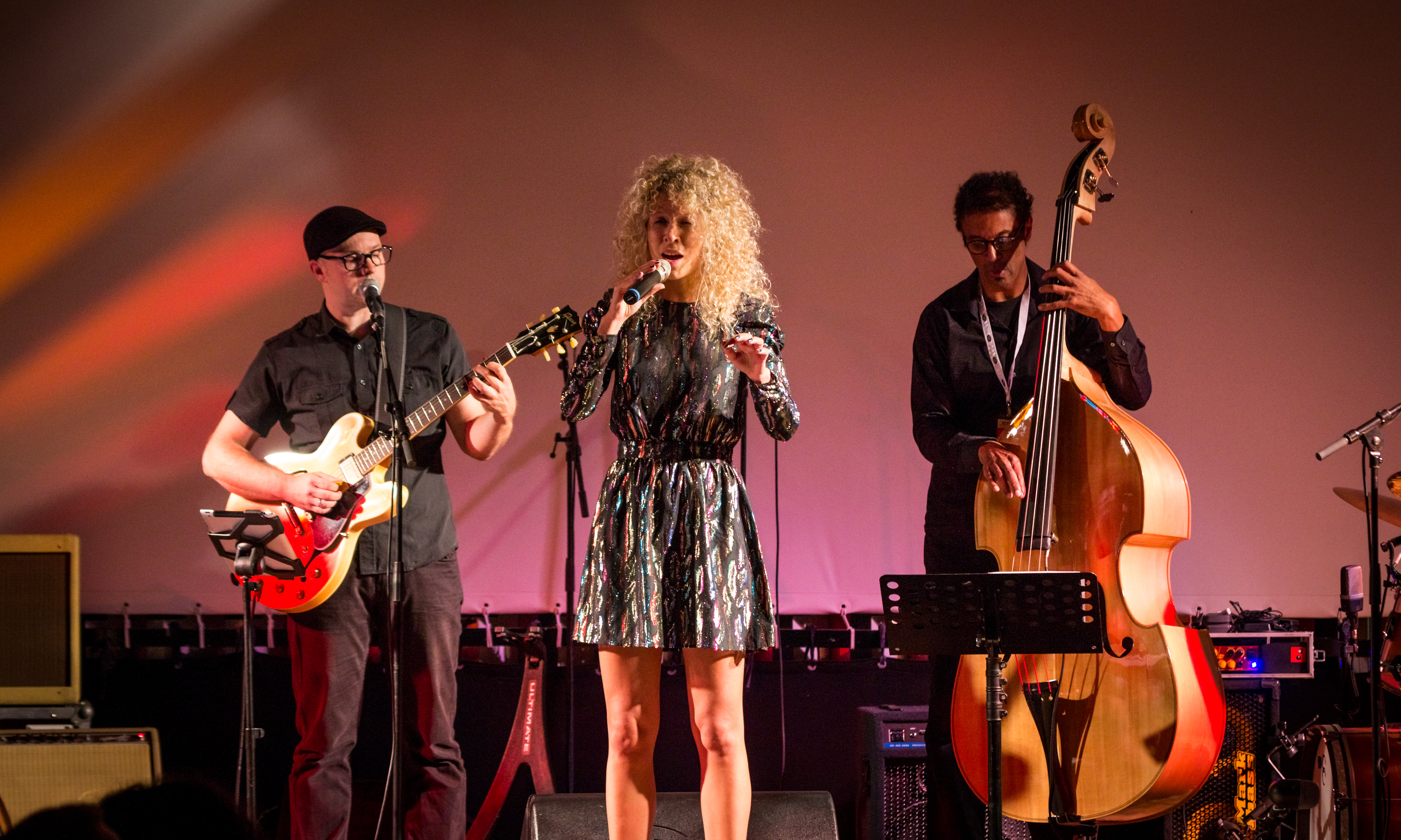 Maya Fadeeva - Leverkusener Jazztage 2016